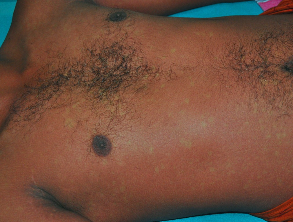 The rash that commonly forms during the recovery from dengue fever with its classic islands of white in a sea of red.